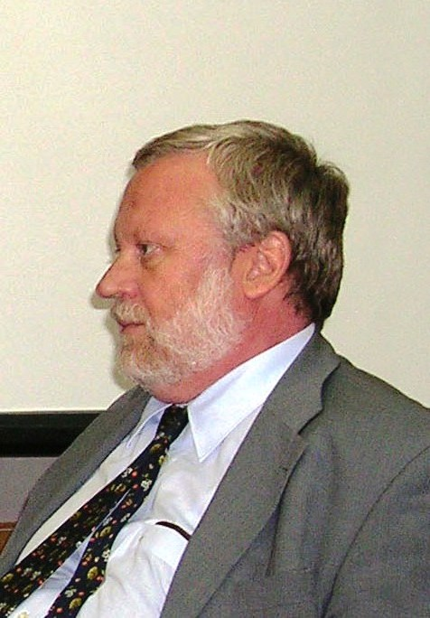 Prof. Kremenuk Victor